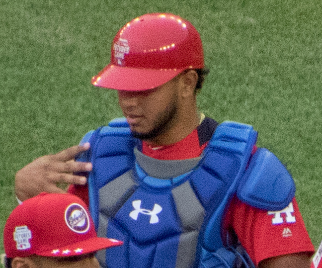 Dominican infielder Yordan Alvarez, Dominican infielder Luis Garcia, Venezuelan shortstop Andres Gimenez, Dominican infielder Fernando Tatis, Jr., Venezuelan catcher Keibert Ruiz and Dominican coach David Ortiz of the World team conduct a mound visit during the 2018 All-Star Futures Game at Nationals Park in Washington, D.C.